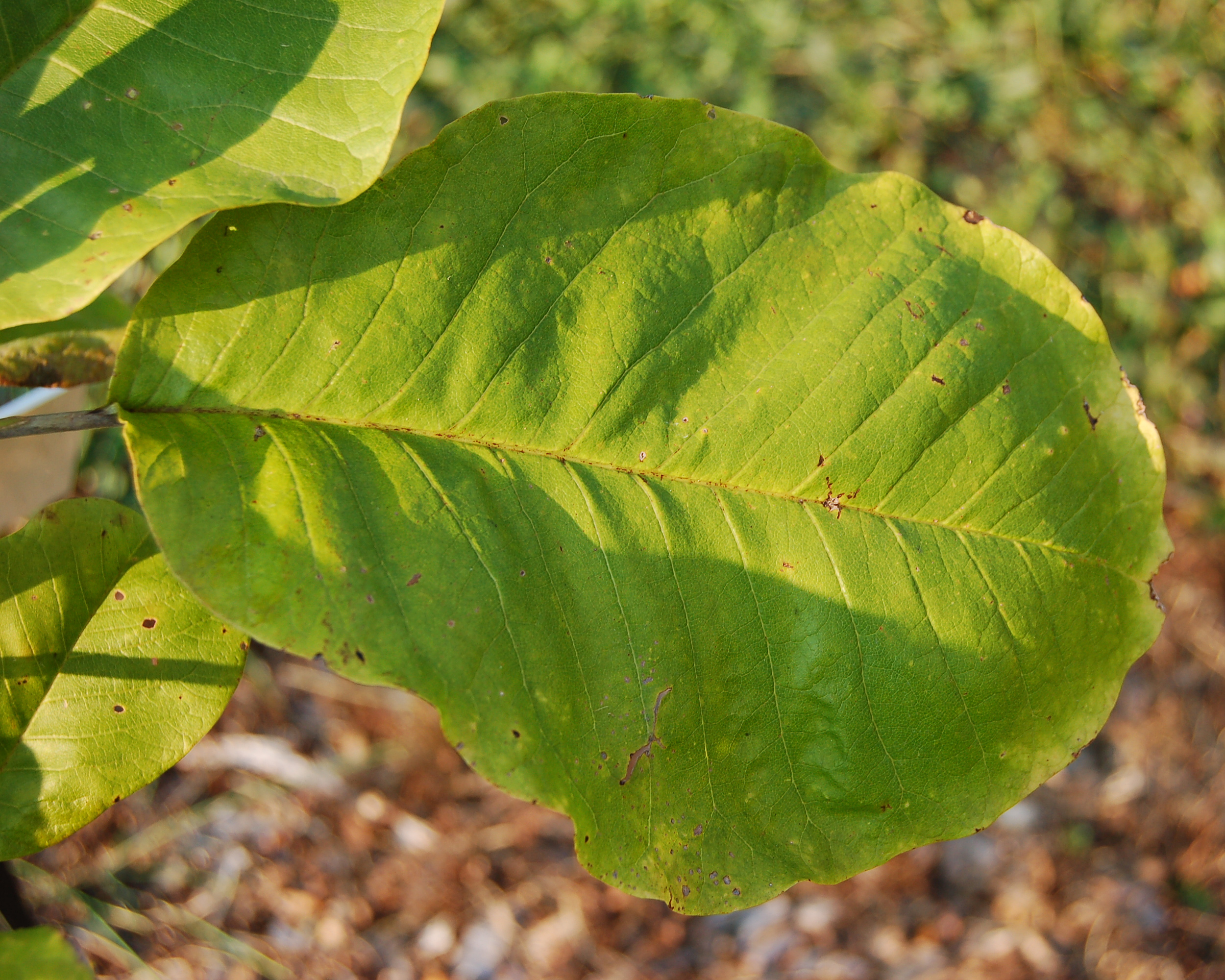 Photograph of the Bigleaf Magnoliaen (Magnolia macrophylla en ). Photo taken at the Tyler Arboretum where it was identified.